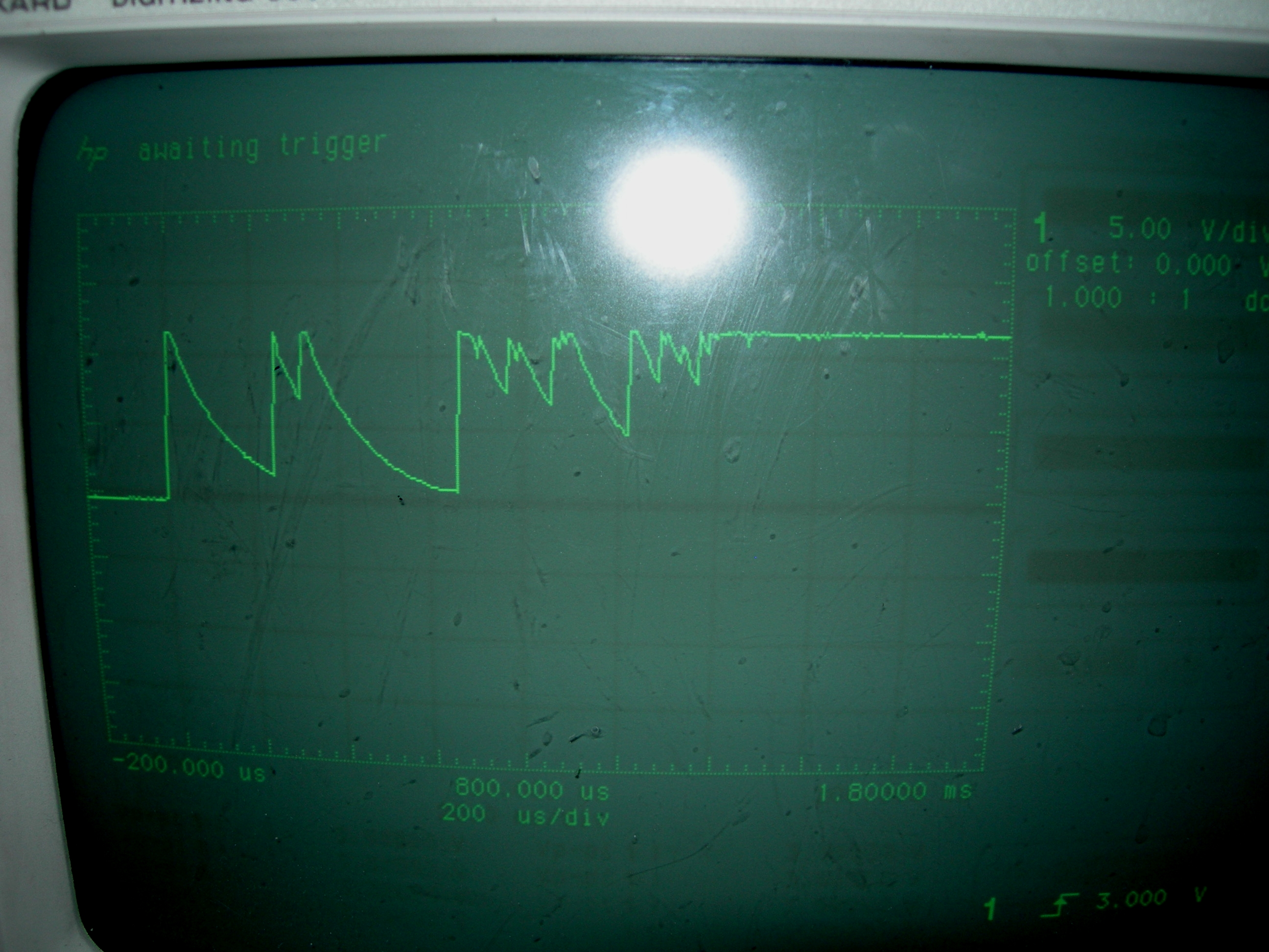 Switch bounce on a HP 54501A digitising oscilloscope. A latching switch was used, one end connected to 12V and the other end to the oscilloscope. The oscilloscope is set to trigger above 3V. As can be clearly seen the switch bounces between (hence the term, switch bounce) on and off several times for at least 1 millisecond after it is switched. The decaying waveform is due to the relatively large capacitance of the switch (a few nanofarads) compared to the relatively high impedance of the oscilloscope (about 1 meg-ohm.)